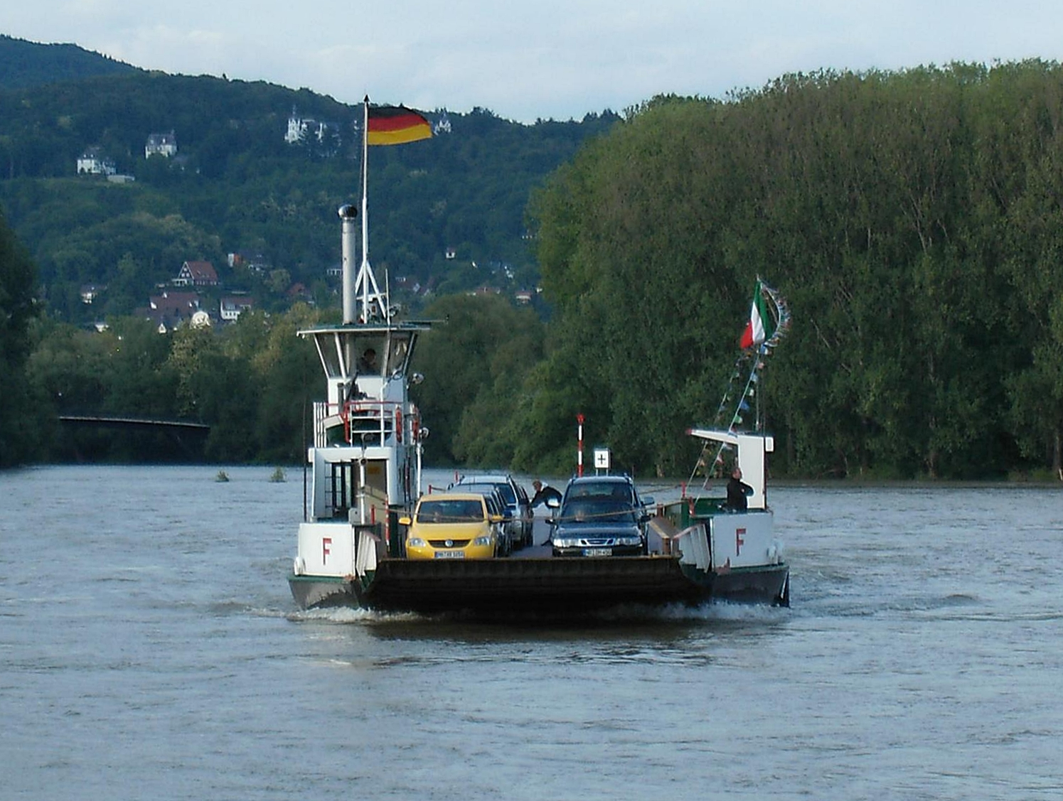 The rhine ferry Bad Honnef–Rolandseck seen from Remagen-Rolandseck. The ferry's name is Siebengebirge. To the left the Berck-Sur-Mer-Bridge and the Island Grafenwerth.